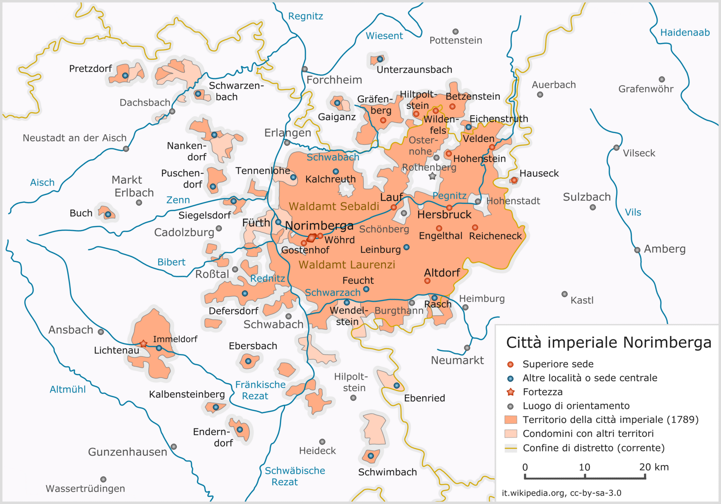 Imperial City of Nuremberg